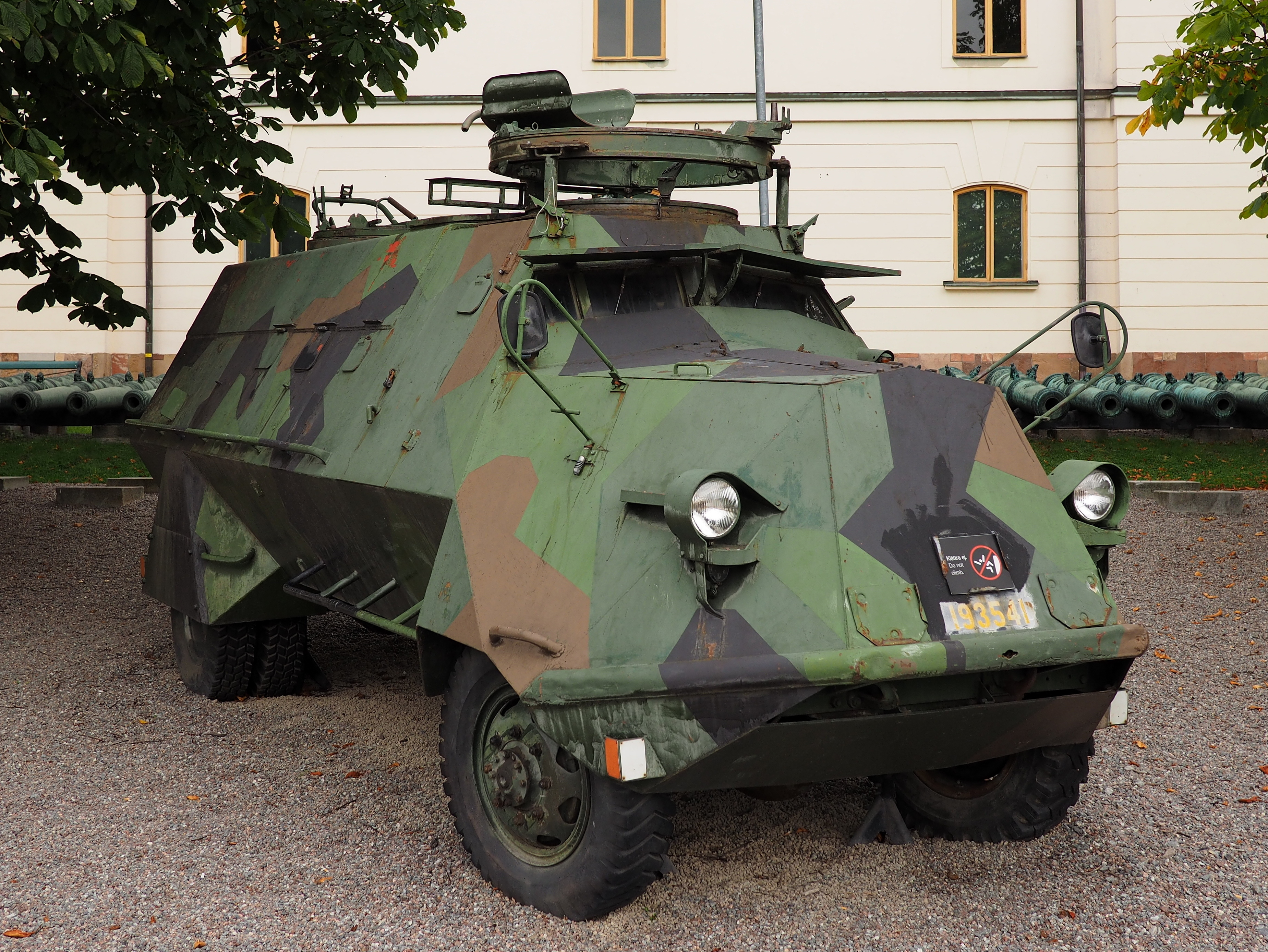 The Tgbil m/42 SKP outside the Swedish Army Museum